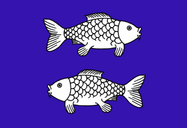 Municipal flag of Rybné, Jihlava District, Czech Republic